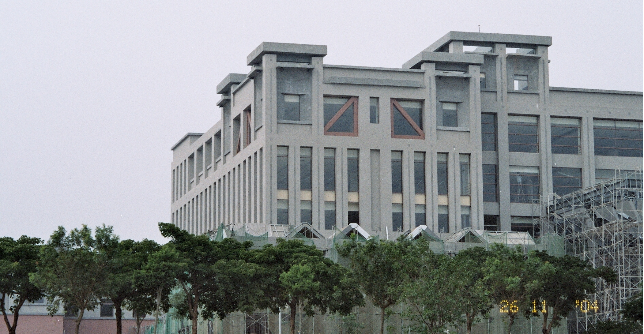 Picture of South West side of Library and Information Building of National Chi Nan University in Puli, Nantou, Taiwan. (under construction and almost complete). Picture taken by on 200411/26. Released under GFDL.